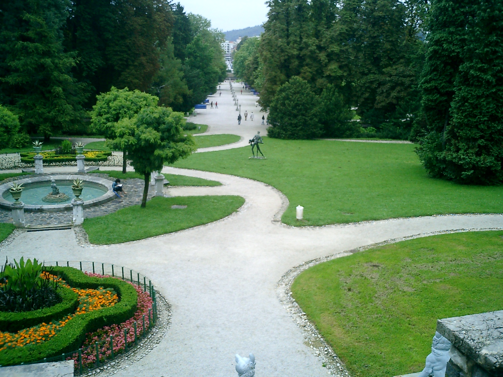 Tivoli City Park, Ljubljana. View from Tivoli Castle. At the bottom of the image, the dogs created by Anton Dominik Fernkorn (1813-1878). In the front, Boy with a Fish, a replica of a fountain from 1870. Behind it, the statue Ballet, work of Stojan Batič (1957). In the background, Jakopič Promenade, architecturally arranged by Jože Plečnik.